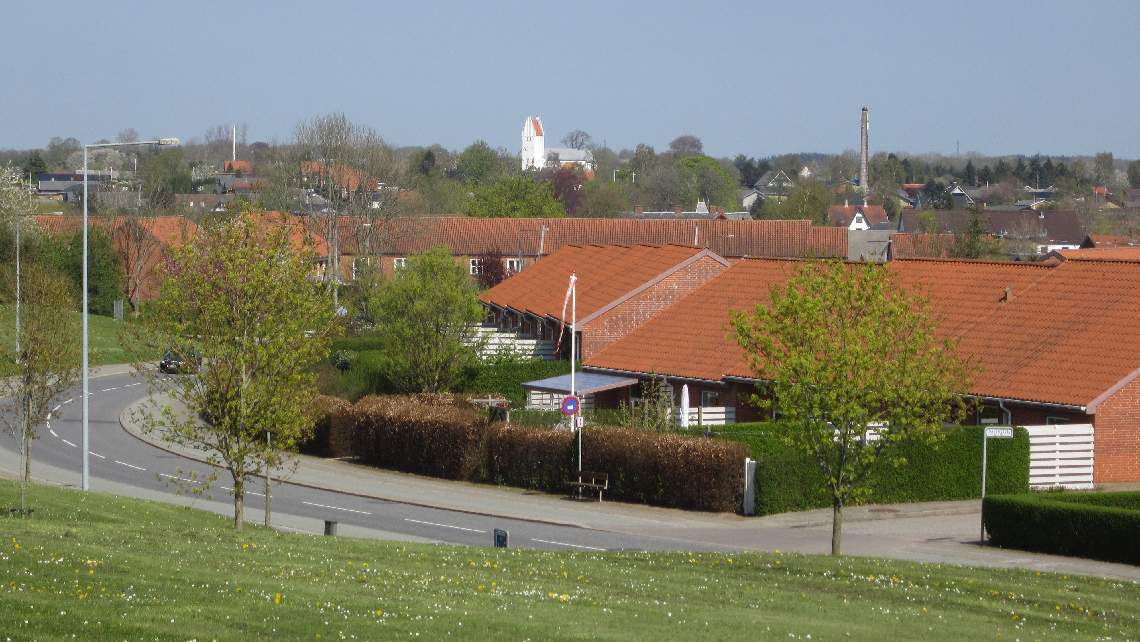 View (seen from the south) at the small town "Børkop". The town is located in South-Central Jutland, southern Denmark.